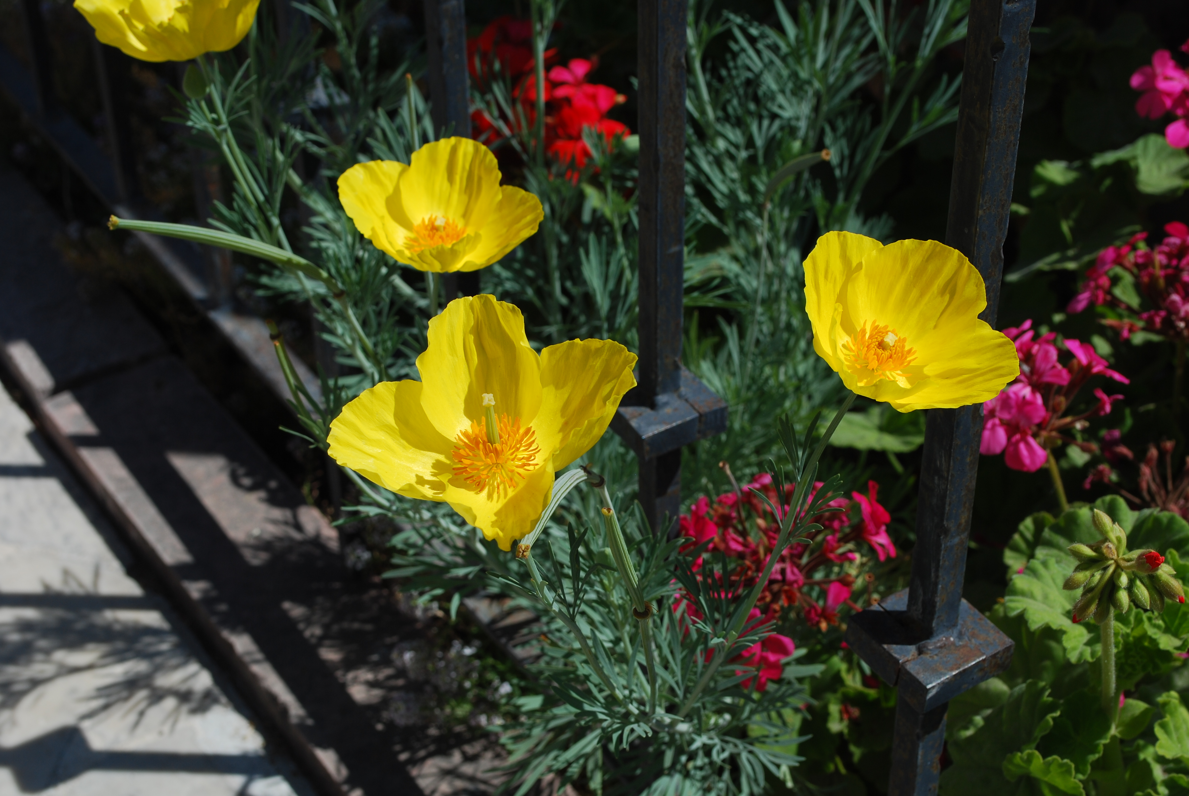 Unidentified flower growing in the atrium of the parish church in Vizarron, Cadereyta de Montes, Querétaro, Mexico